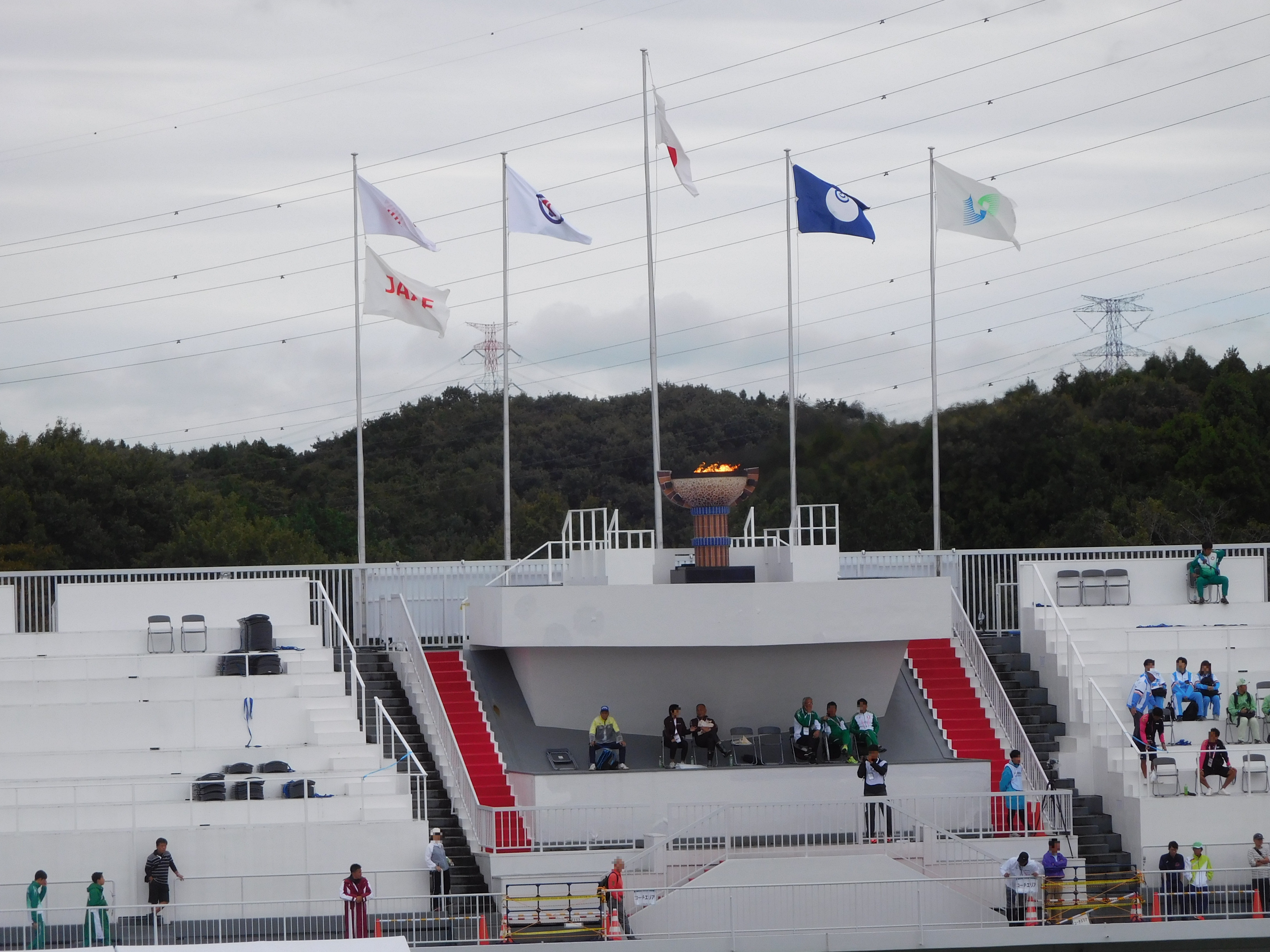 Athletics Competition at the 74th National Sports Festival of Japan. Flame of the national sports festival of Japan.